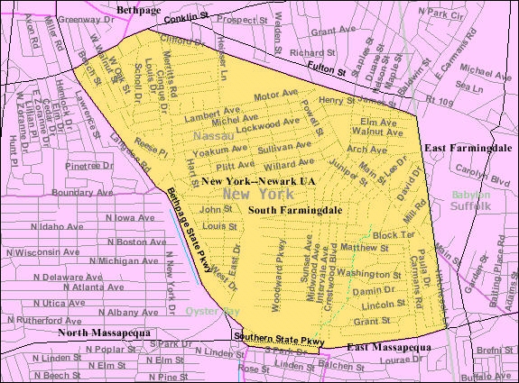 U.S. Census 2000 reference map for South Farmingdale, New York